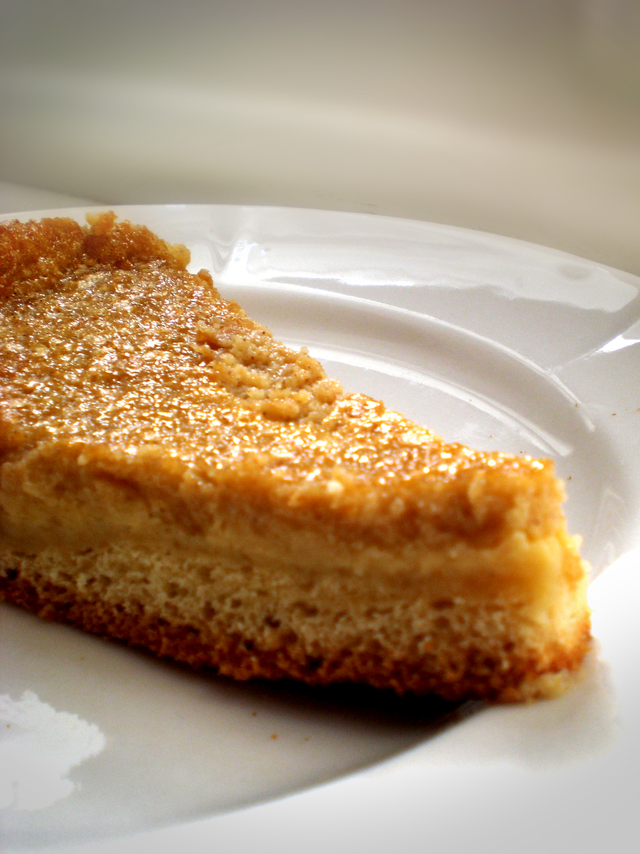 Slice of smietanik.